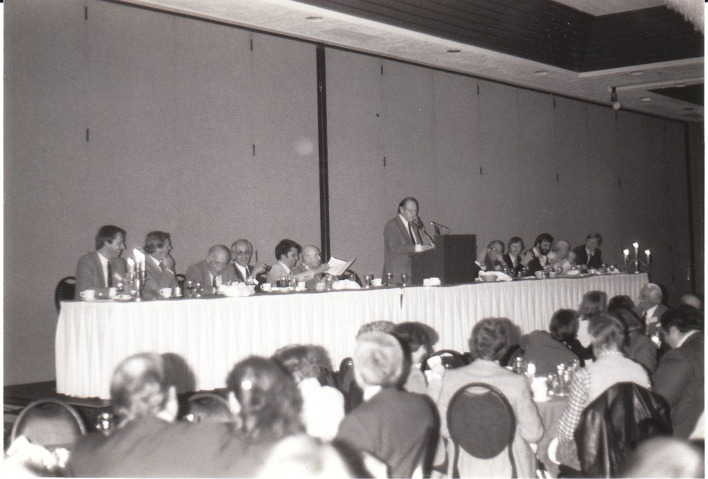 Paul Kurtz addresses the Banquet at the 1983 CSICOP Conference in Buffalo, NY